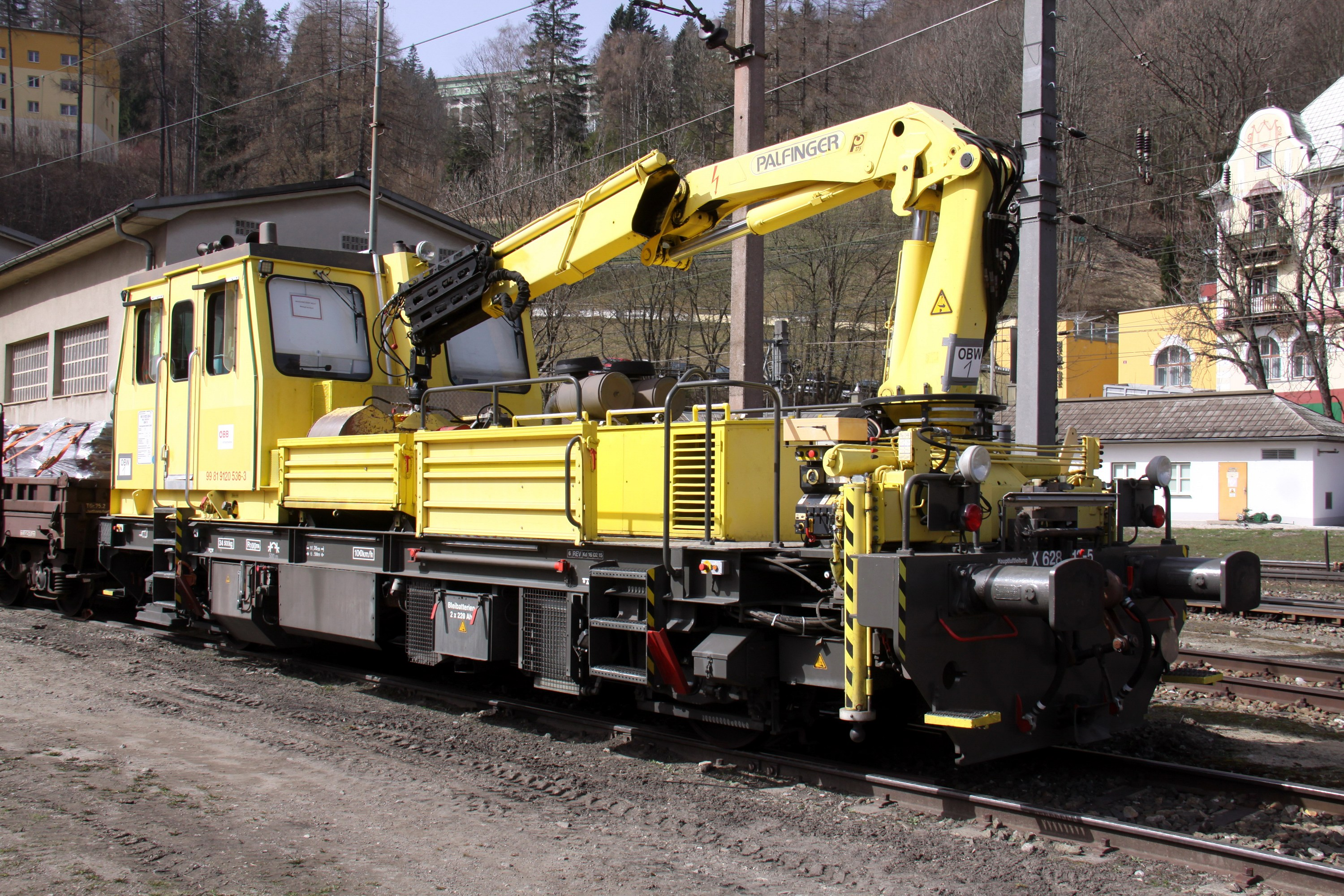 Semmering railway, rebuild track 1 between the stations Breitenstein and Semmering with ballast cleaning and cabling works. – The photo shows the working vehicle SKL X 628.013-5 in the station Bahnhof Semmering.